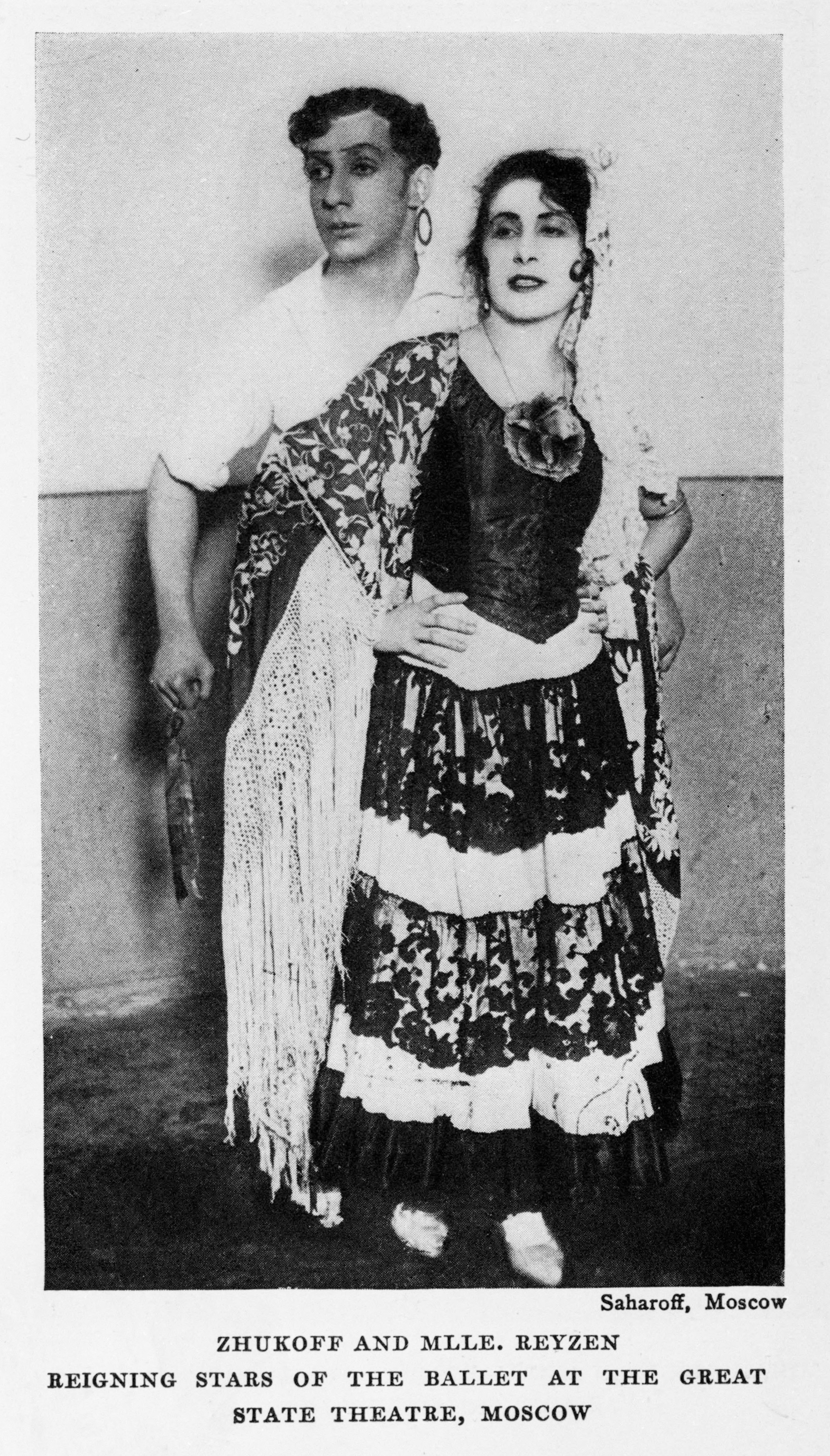 Zhukov and Reyzen